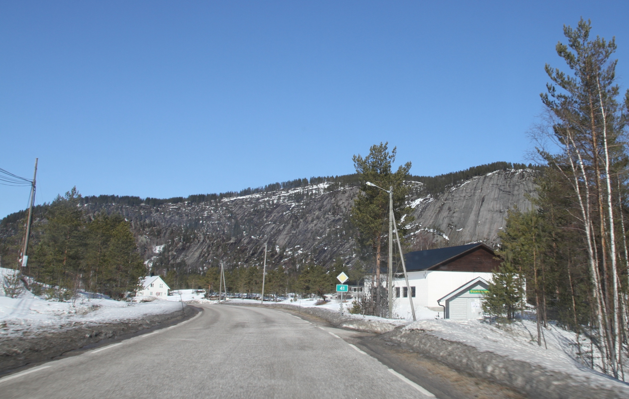 Image from the Treungen township, administrative center of the Nissedal municipality, Telemark county - Norway